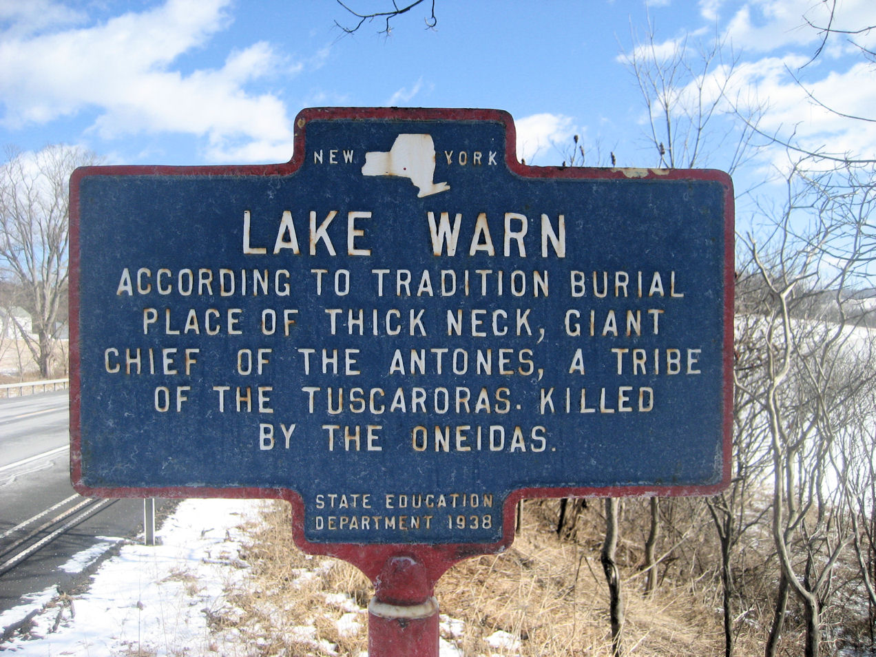 Historic marker of Lake Warn, Oxford, NY. Traditionally the burial place of Thick Neck, Giant Chief of the Antones, a tribe of Tuscaroras